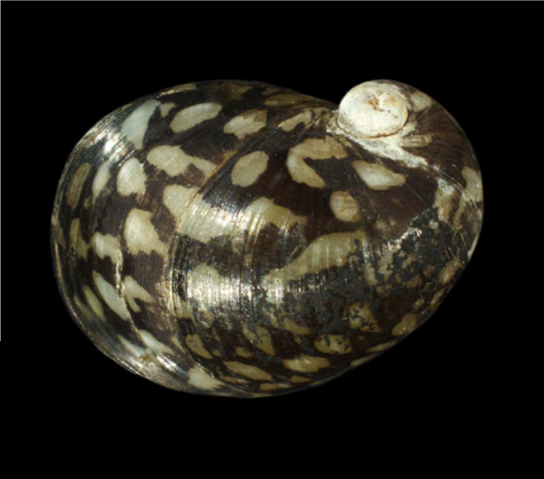 Photo of a shell of Thedoxus fluviatilis. Locality: Alster, Hamburg, Germany.